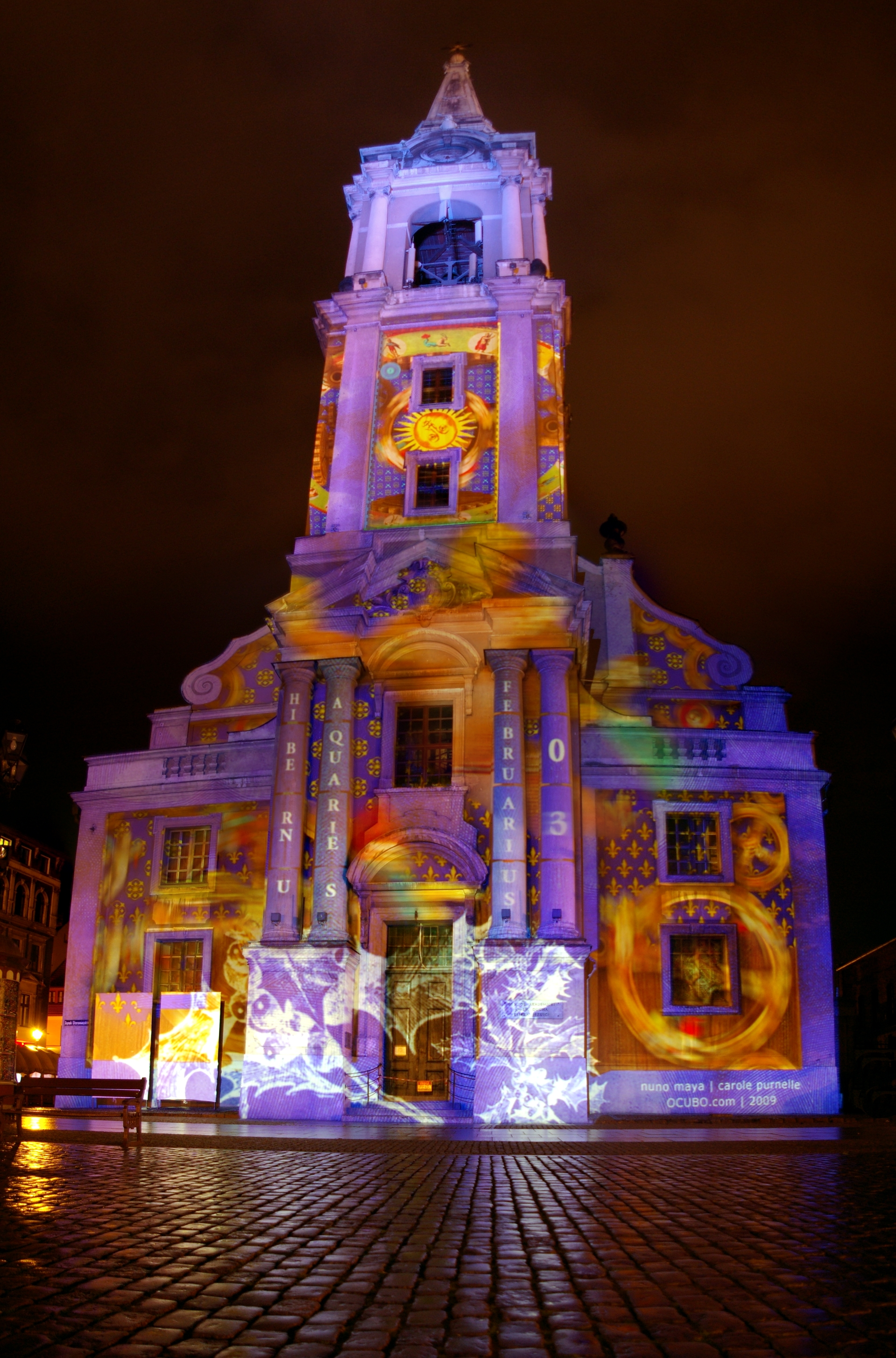 The Church of the Holy Spirit in Toruń during Skyway'09 Light Festival